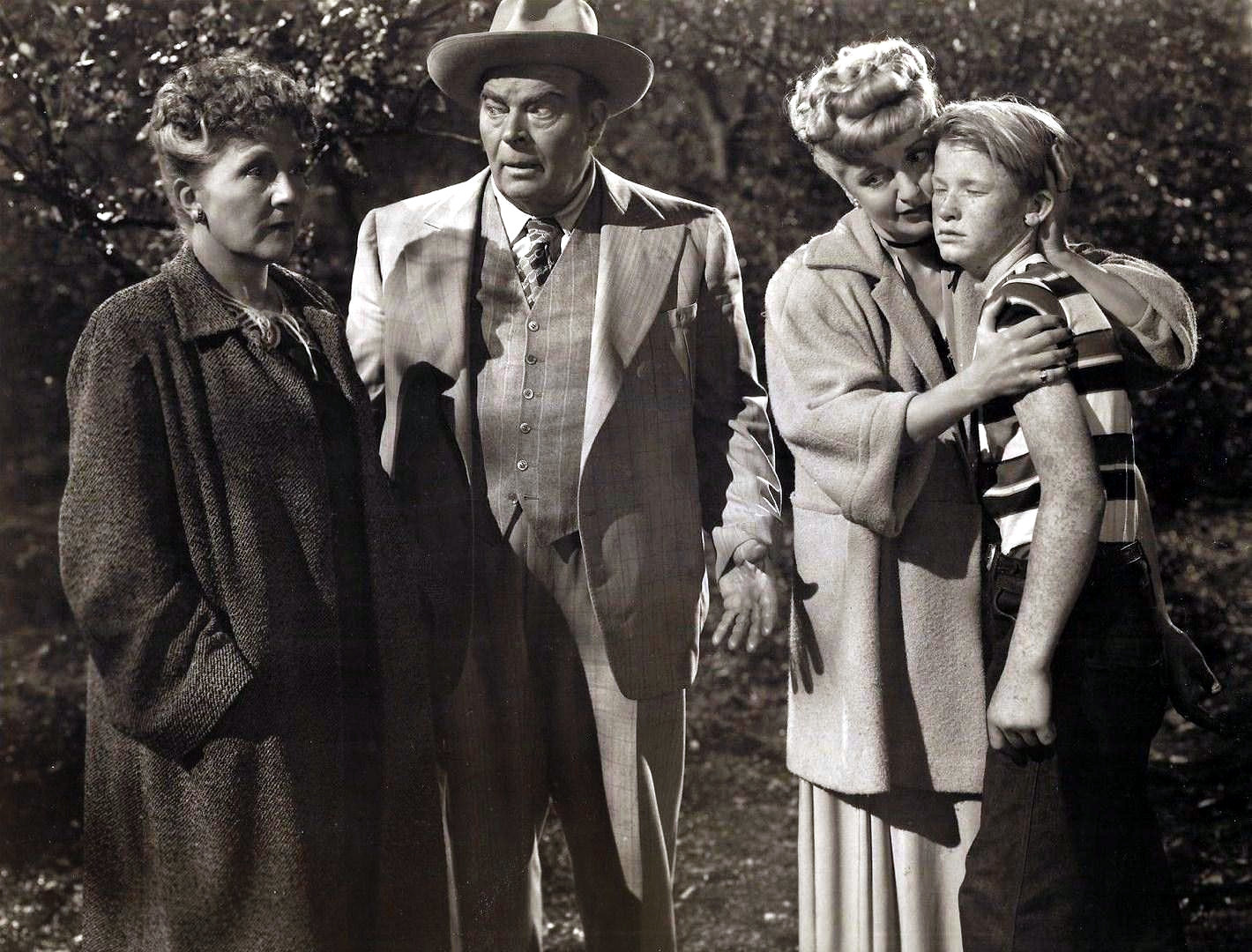 L. to R. : Nana Bryant, Billy House, Lee Patrick & Dale Belding in Inner Sanctum - publicity still (cropped)